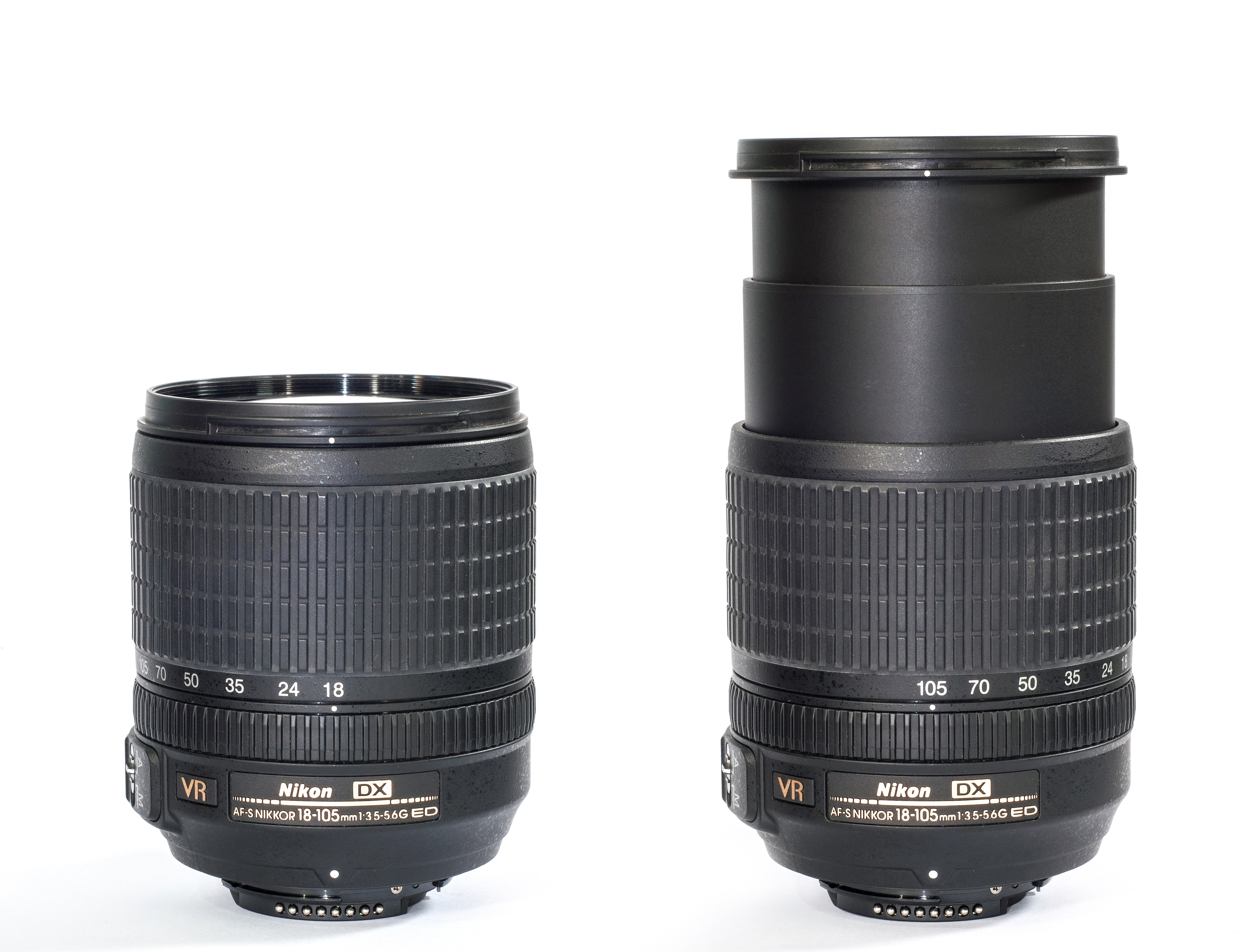 AF-S DX Nikkor 18-105mm f/3.5-5.6G ED VR lens normal and full zoom.